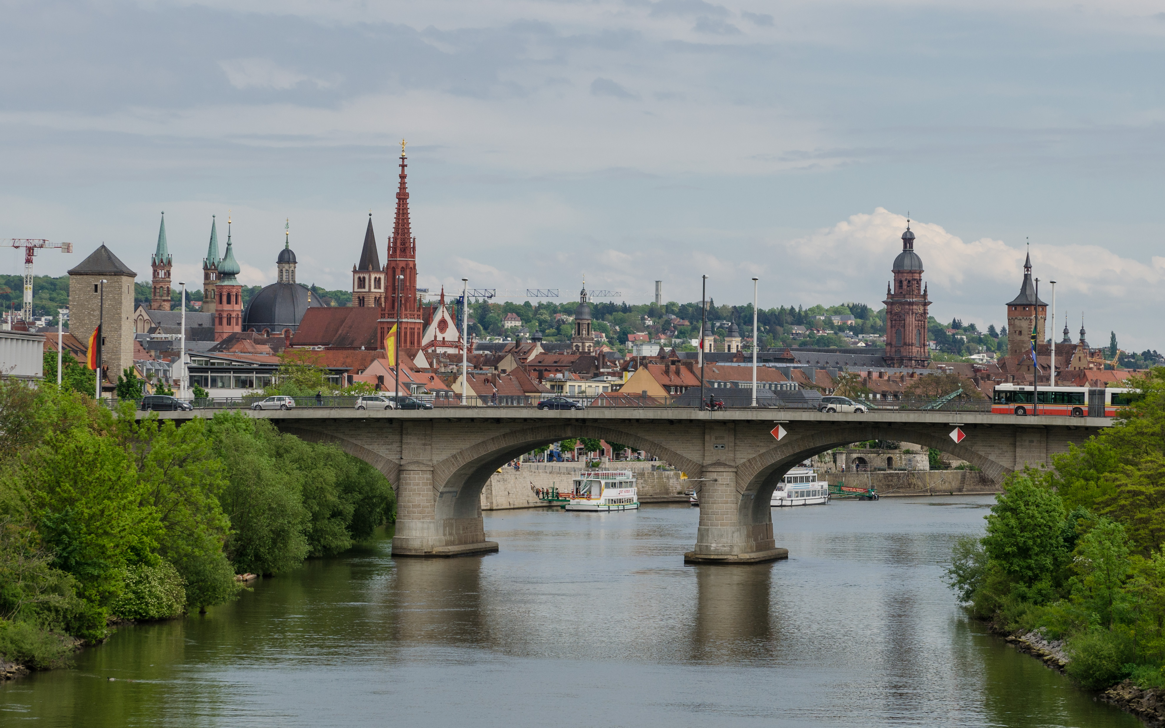 The Friedensbrücke in Würzburg, Germany which is one of the major traffic bridges in the city, used by the B8 and the B27.